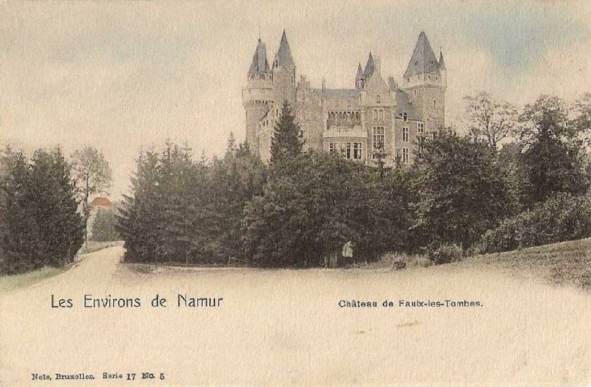 Faulx-les-Tombes castle 1900